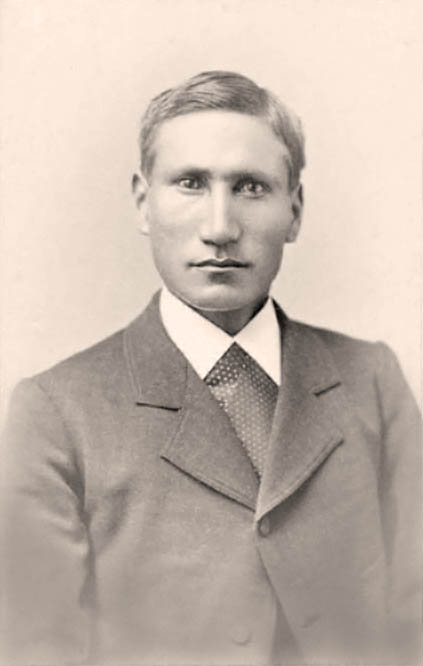 description David Pendleton Oakerhater, Cheyenne warrior, 1881